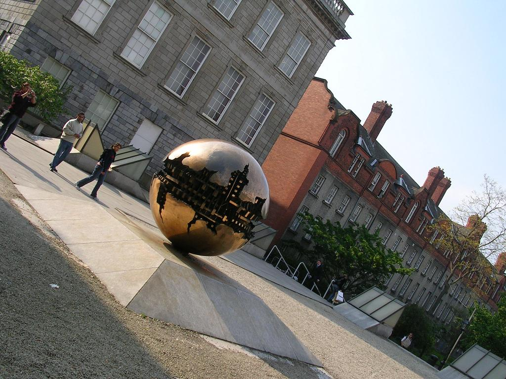 Trinity_College_Pomodoro